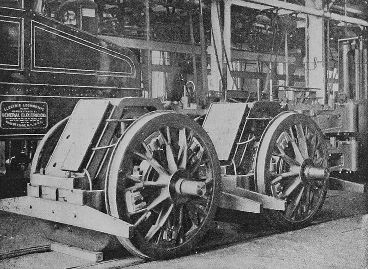 Fig. 268A. Truck of Baltimore and Ohio 1896 gearless locomotive, showing motor in place. See list of illustrations in source for page number in source - relevent text content is near to image in the source